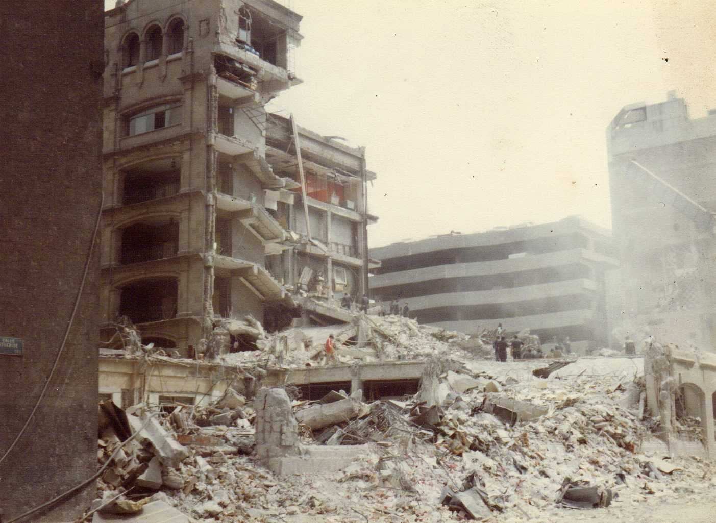 Images of Mexico City Earthquake, September 19, 1985.